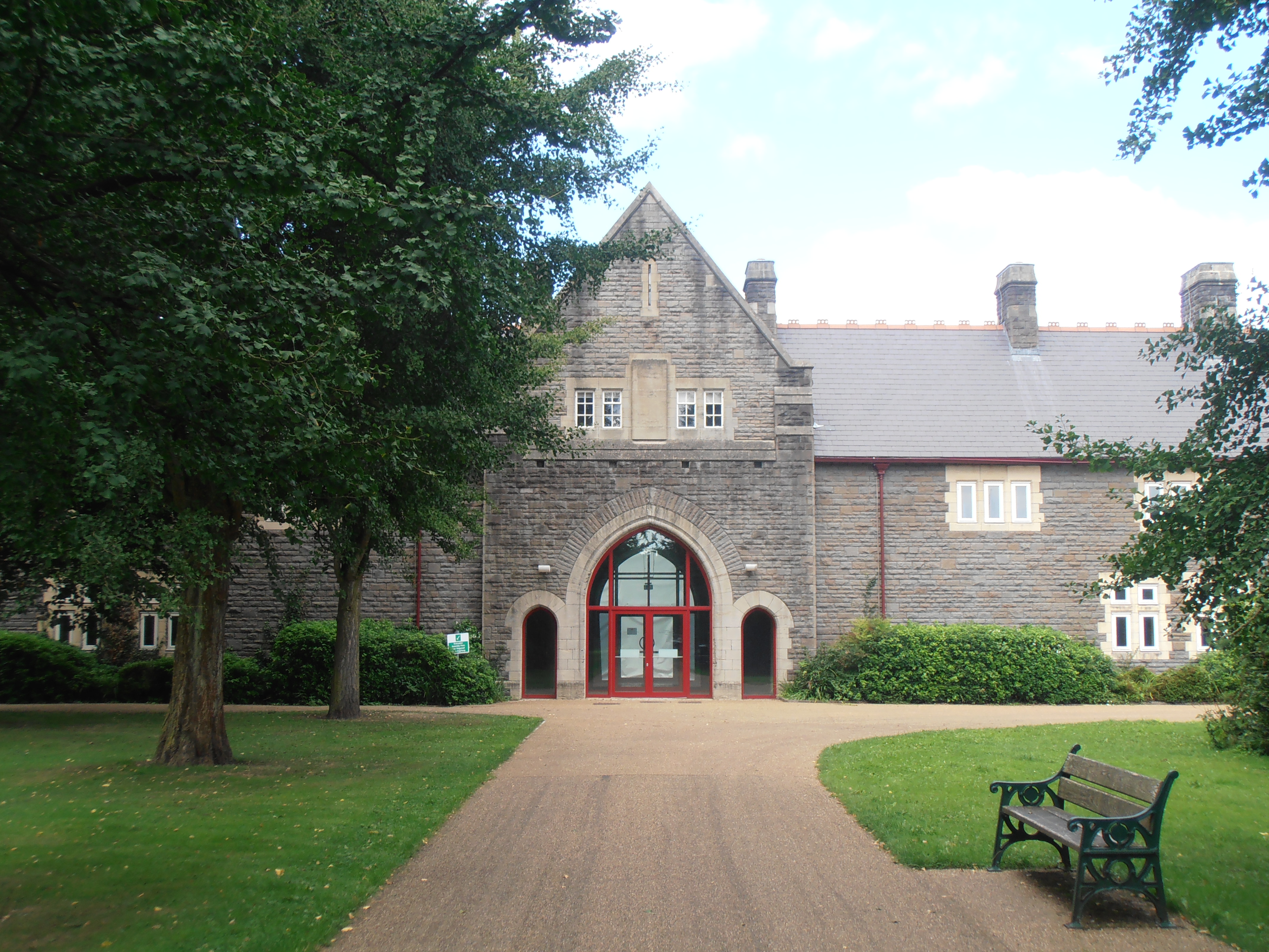 The Anthony Hopkins Centre, formerly the stable block of Cardiff Castle, is now part of the Royal Welsh College of Music and Drama.